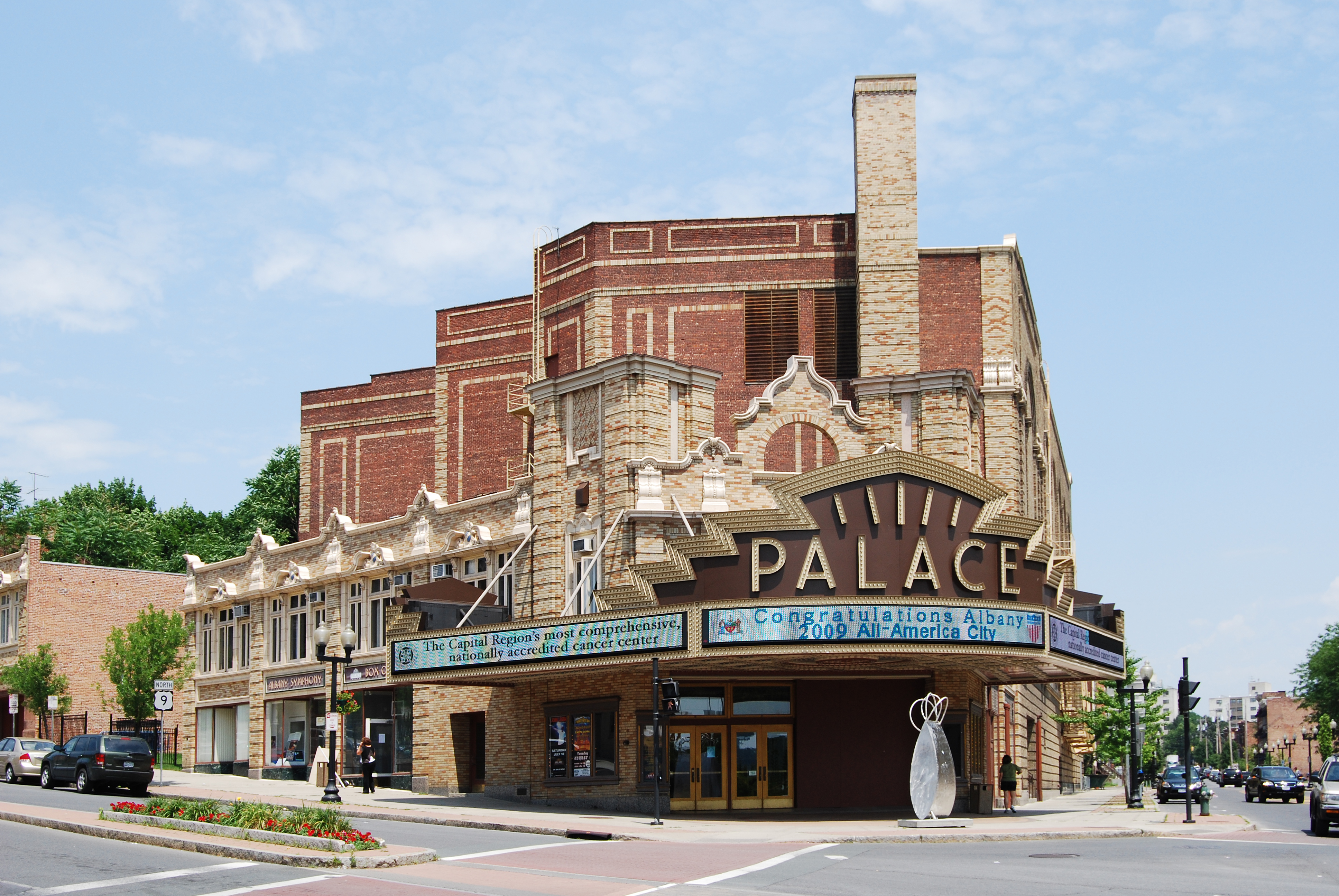 The Palace Theatre, opened in 1931 in Albany, New York, United States. It was added to the National Register of Historic Places in 1979 and is a contributing property to the Clinton Avenue Historic District, which was listed in 1988.